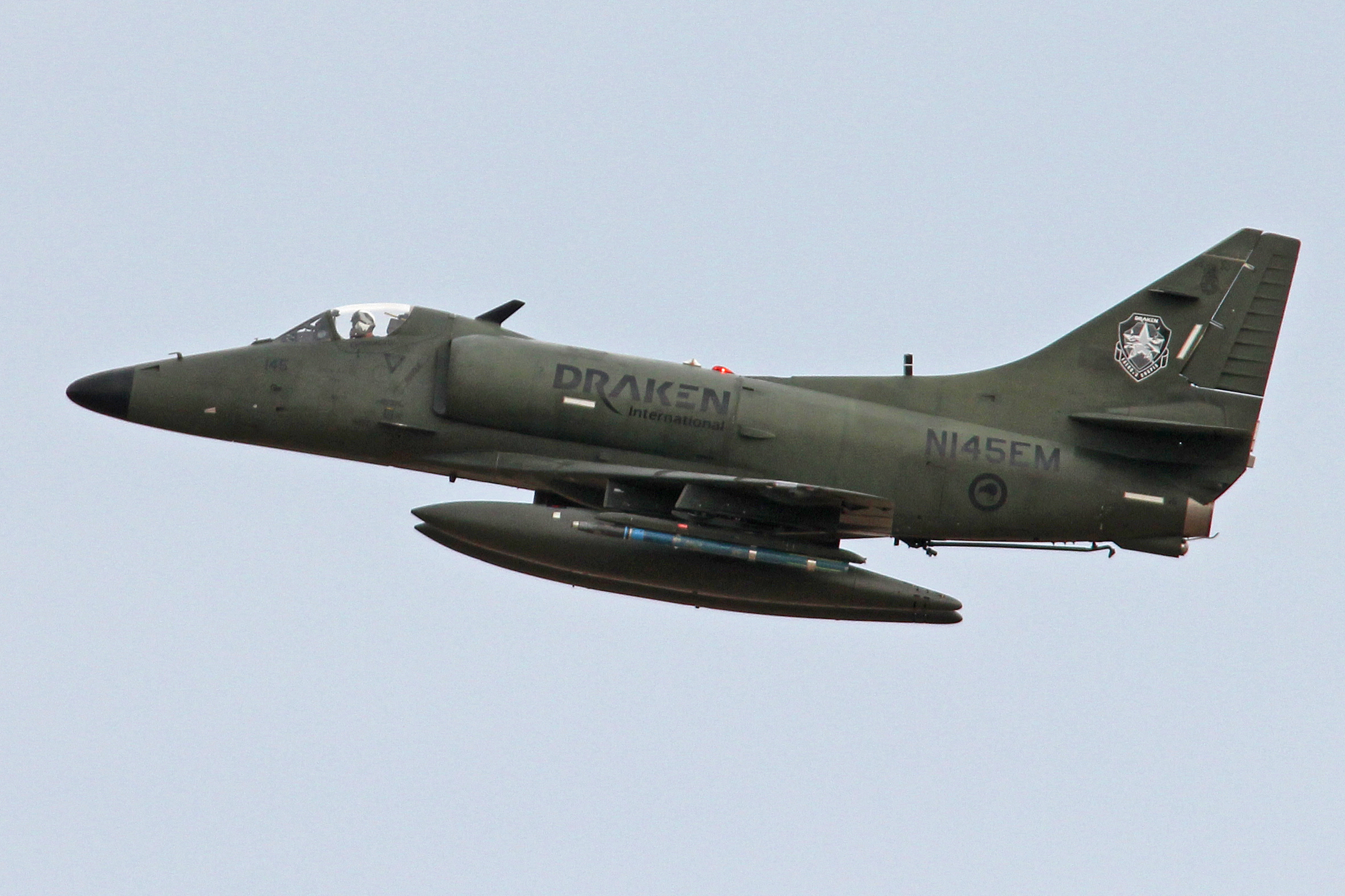 c/n 13868. Built 1970 with the US Navy Bureau No 155052. Served with the Royal Australian Navy as ‘N13-052’ and later with the Royal New Zealand Air Force as ‘NZ6215’. Now operated by Draken International Inc. for threat simulation. Nellis AFB, NV, USA. 3rd March 2016.